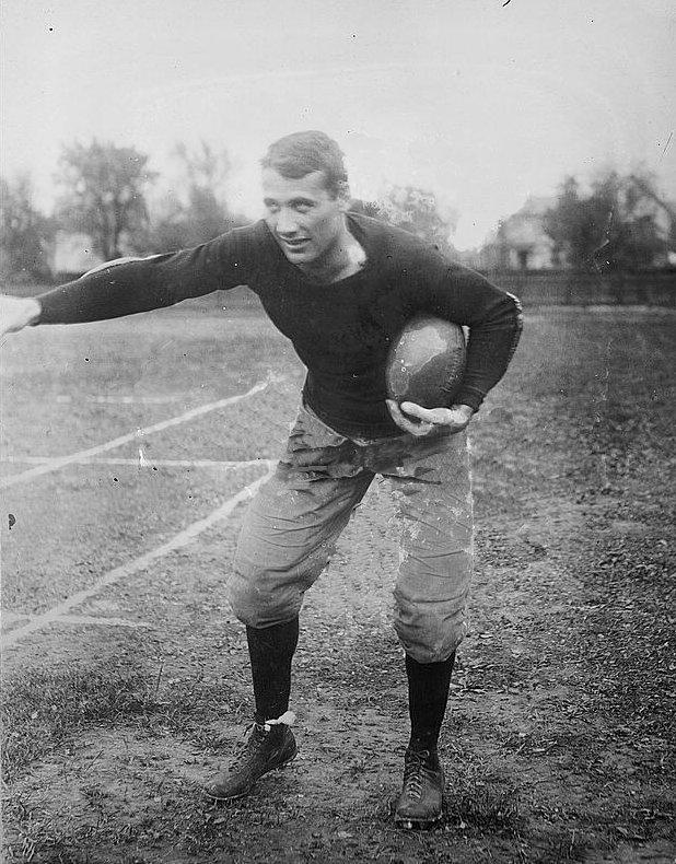 Bain News Service,, publisher. Capt. Buser, (Wisc.) [1912?] (date created or published later by Bain) 1 negative : glass ; 5 x 7 in. or smaller. Notes: Title from unverified data provided by the Bain News Service on the negatives or caption cards. Photo shows Alfred Buser, captain of the undefeated 1912 University of Wisconsin football team.